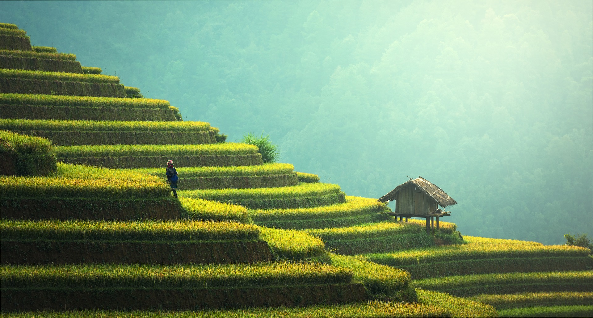 A person walking on terraces in Thailand